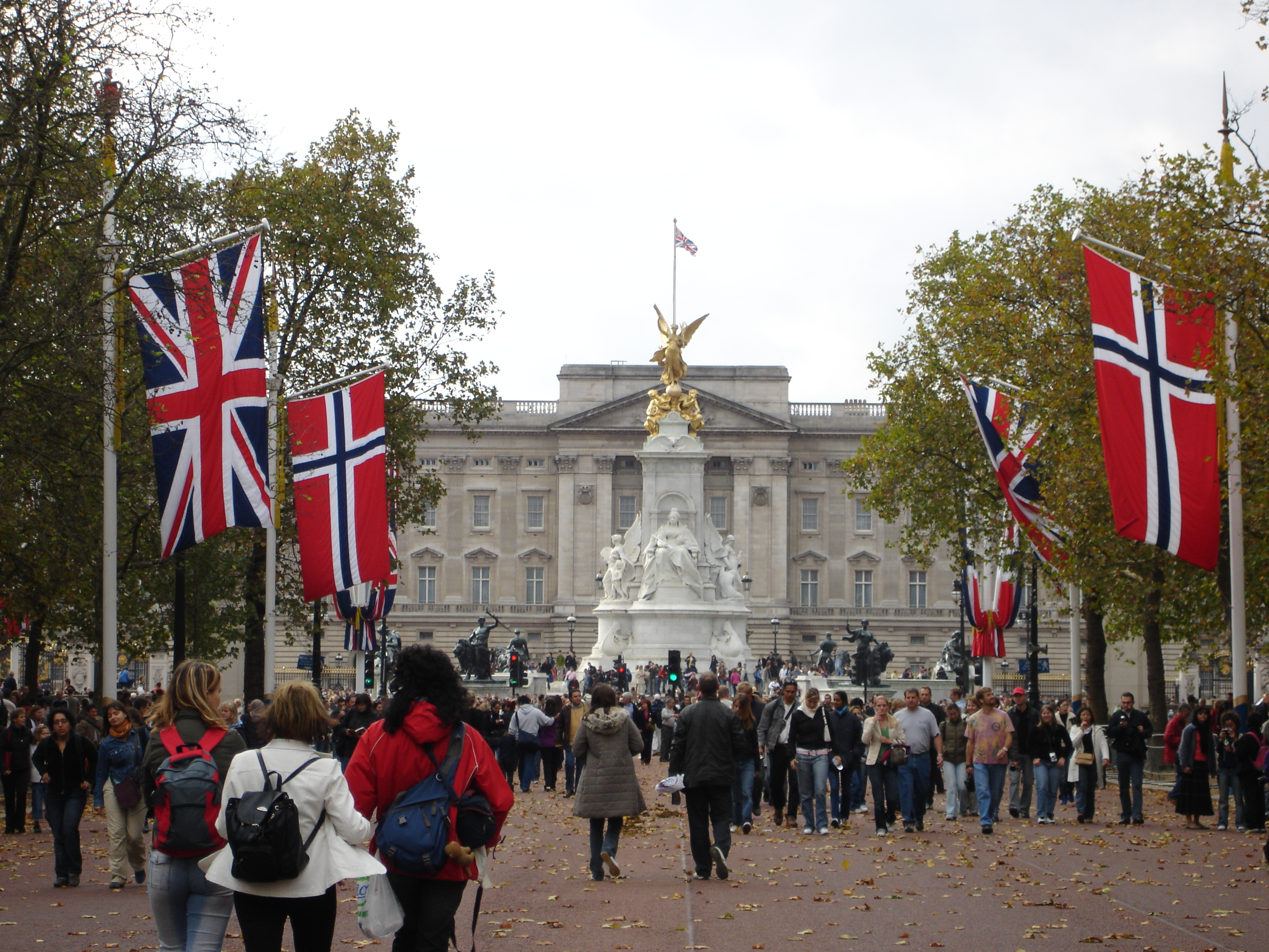 View of Buckingham Palace, From the Mall.